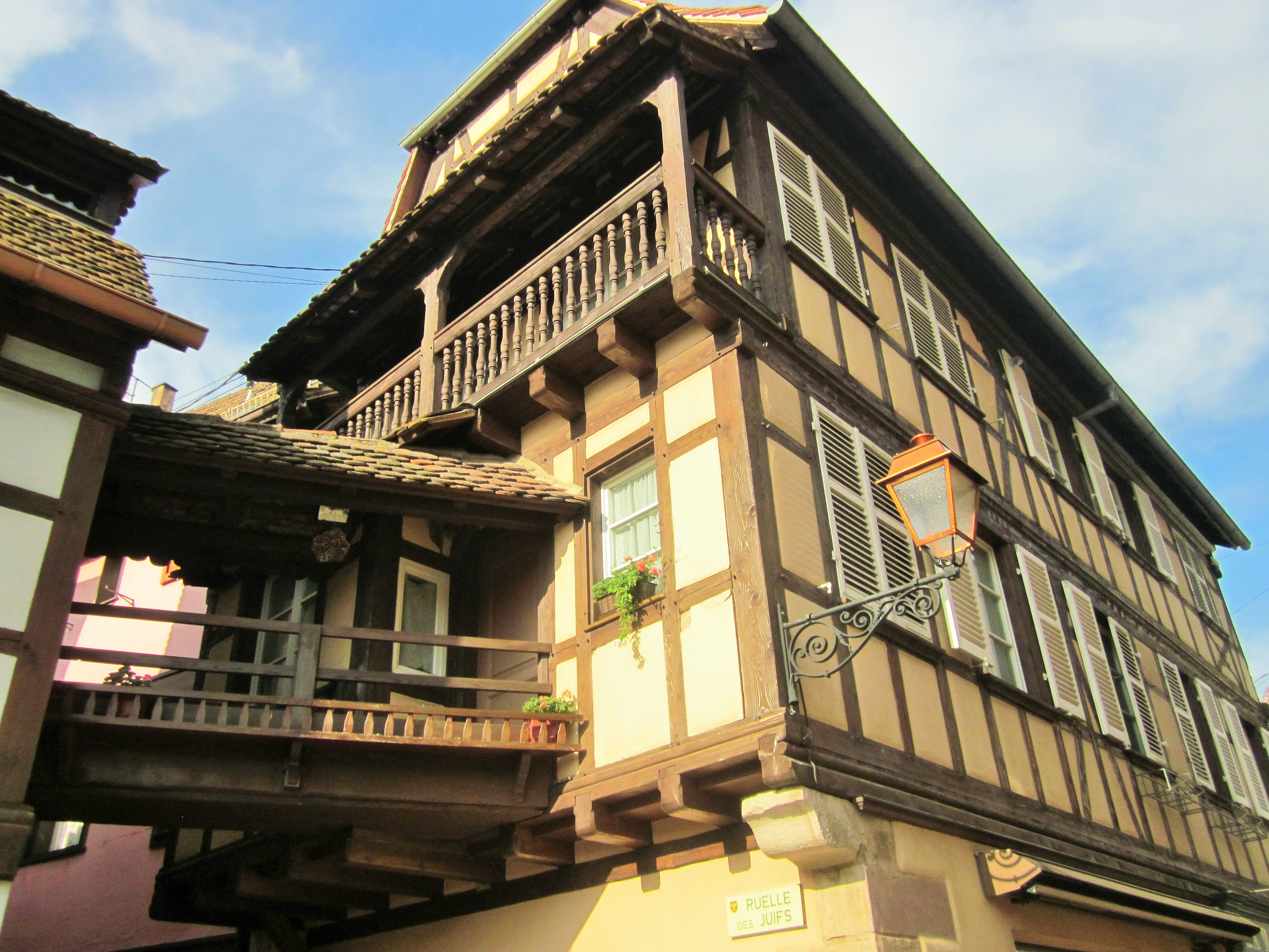 The Jewish street of Obernai (Bas-Rhin), Alsace ,France. The Jewish community lived on this street in medieval times.